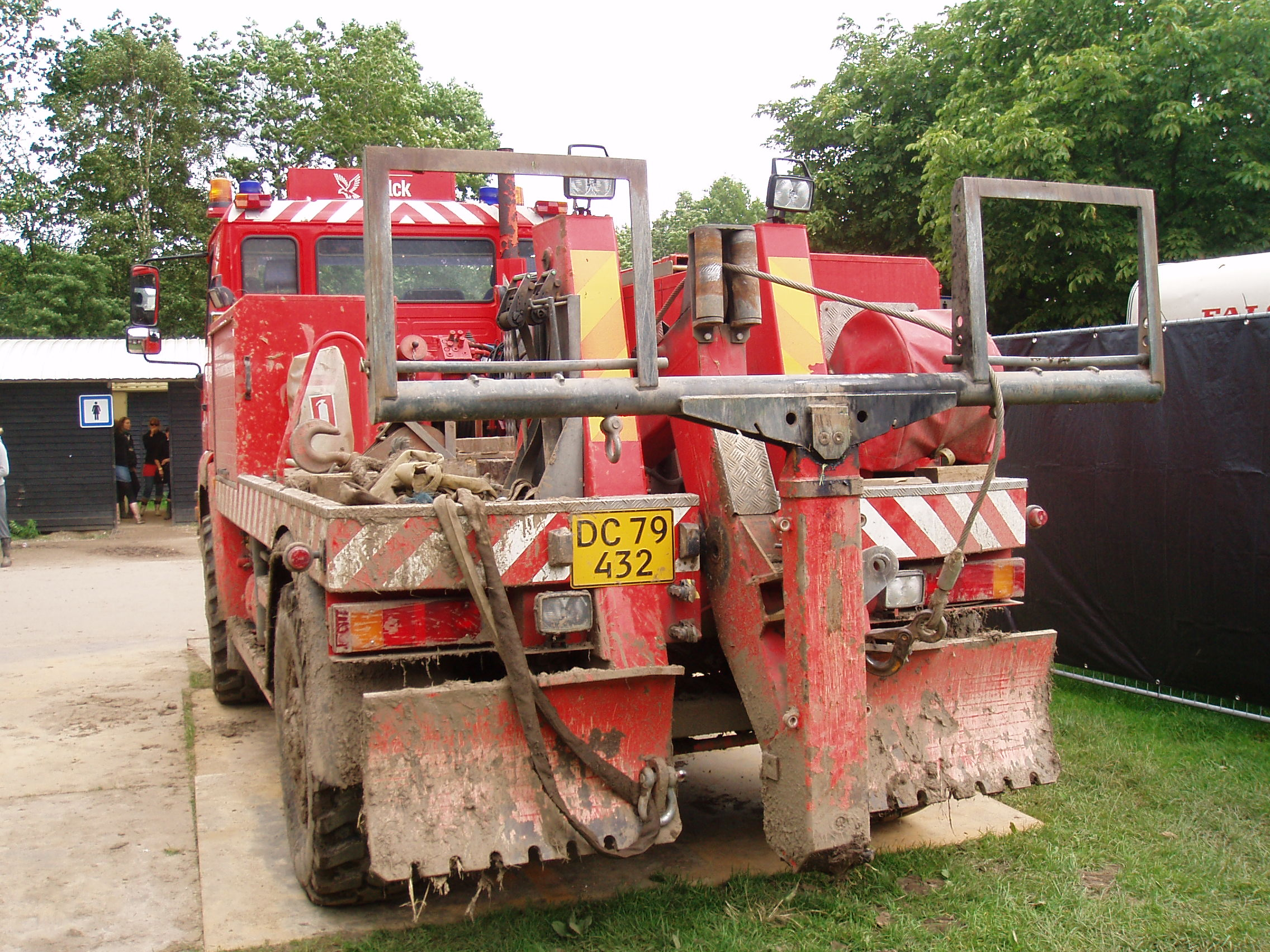 Falck terrain-going medium-duty salvage truck. This unit is primarily used for dragging vehicles up from e.g. mud and rarely used for later transport. The big hydraulic shovels behind the vehicle allows it to "dig" into the dirt providing a huge resisting force. Towing is done by a winch located above the boom.